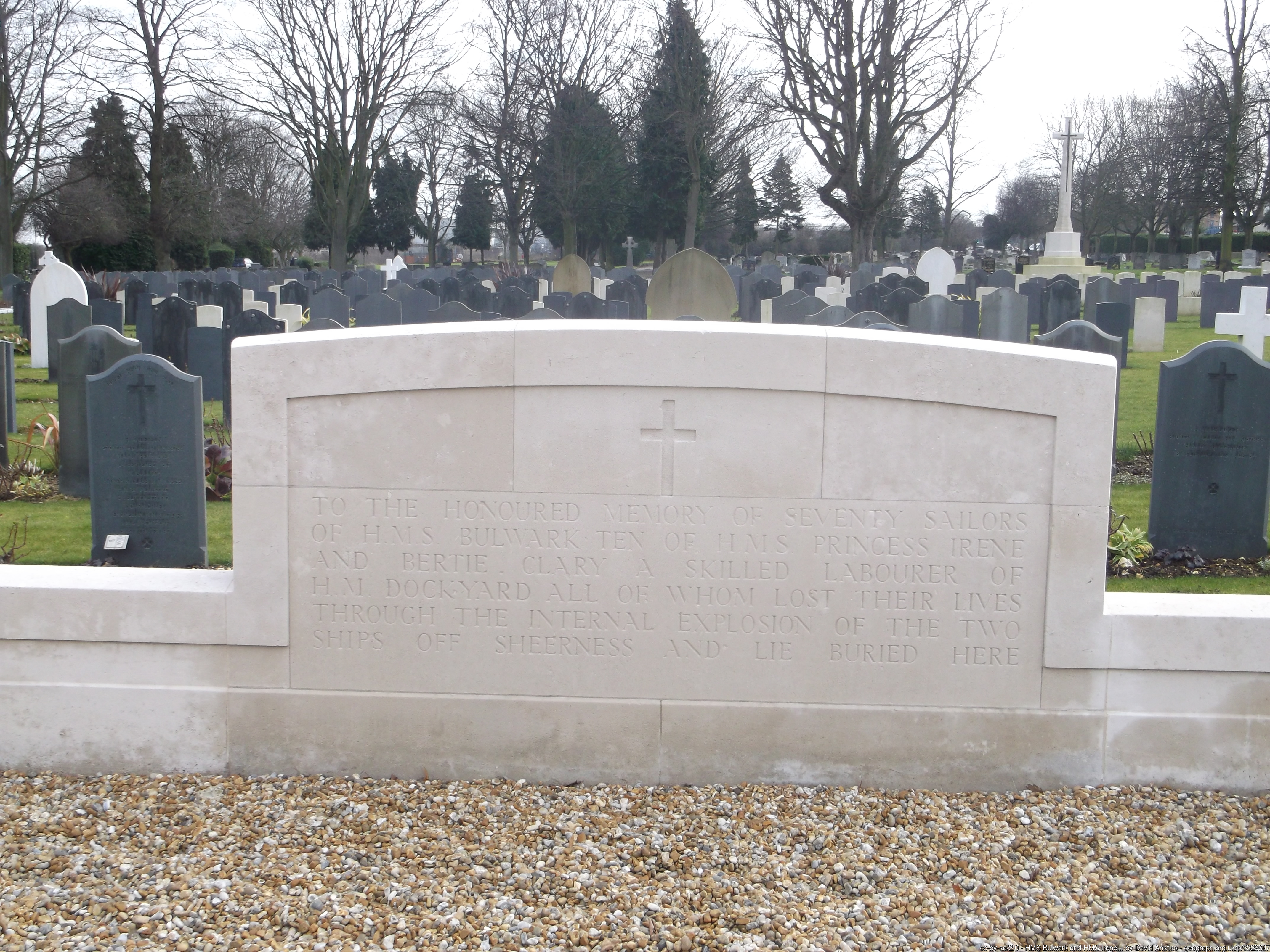 The monument for HMS Bulwark and HMS Irene in Woodlands Road Cemetery, Gillingham, Kent